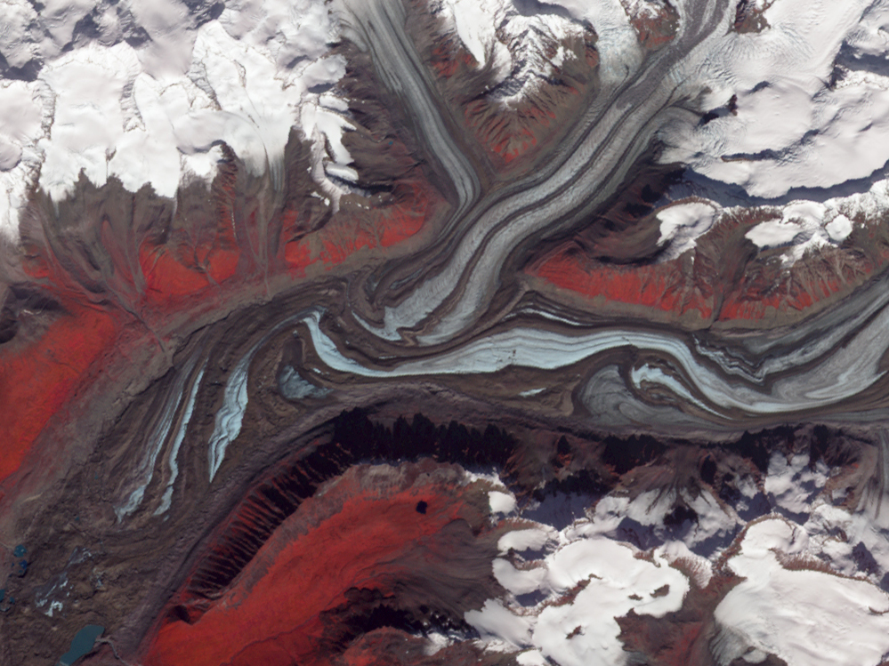 False-colour image of Susitna Glacier, crop of File:Susitna Glacier, Alaska.jpg